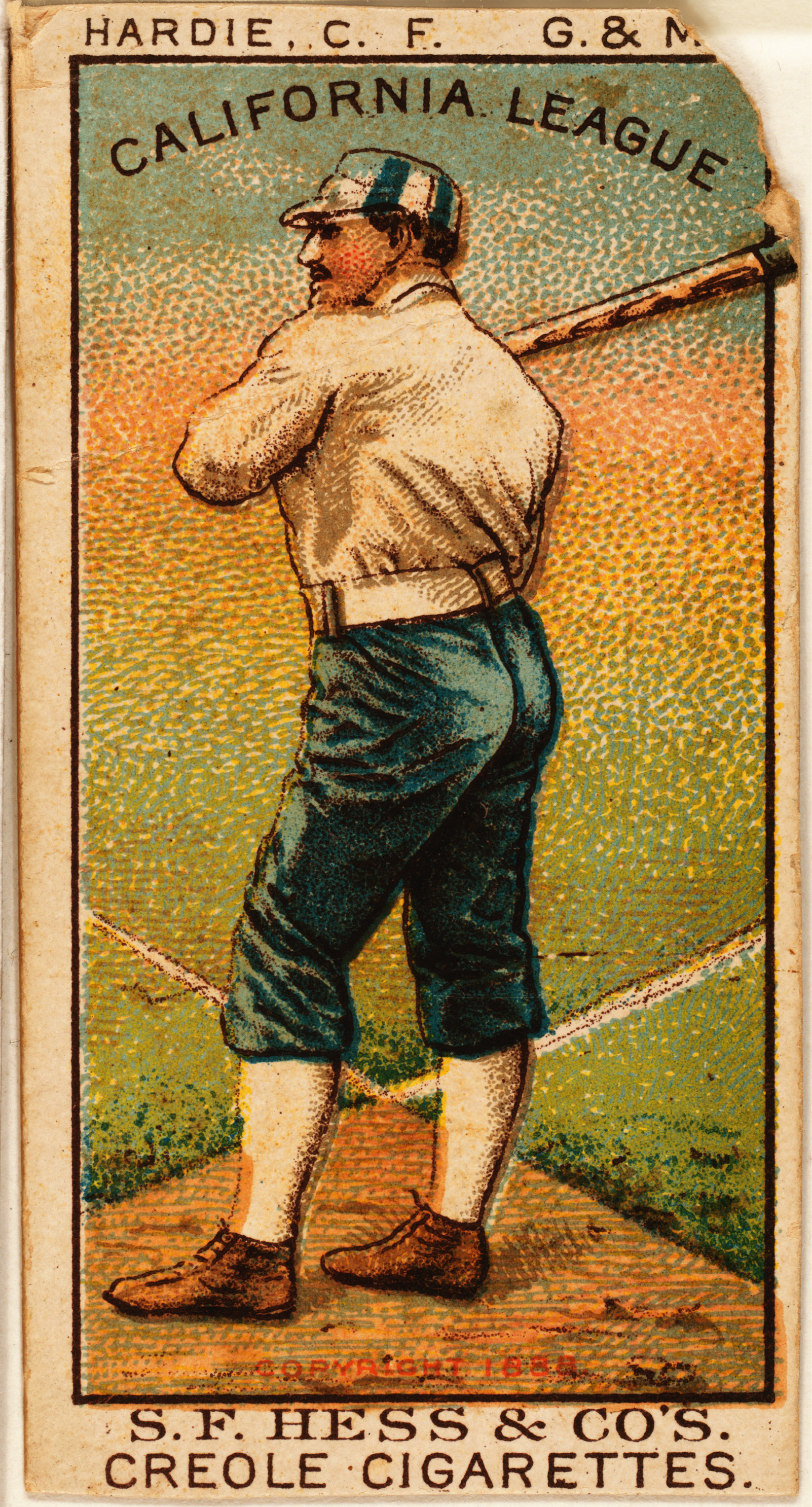 N321 Hess California League 1888 Two cards from the superrare S.F. Hess & Co. California League N321 series. One reason why the cards might be so rare is that Hess was based in Massachusetts, so collectors were probably not all too keen to collect cards from the other coast. Here is a game report of Jack Lawton's Haverlys beating Pop Hardie's G&M's 4-2 (1st column, under "Rank Umpiring"). The other two teams of the League, the San Francisco Pioneers and the Stocktons (presumably from Stockton), also played. Taken from the Edwards Collection at the U.S. Library of Congress. [PD] This picture is in the public domain.